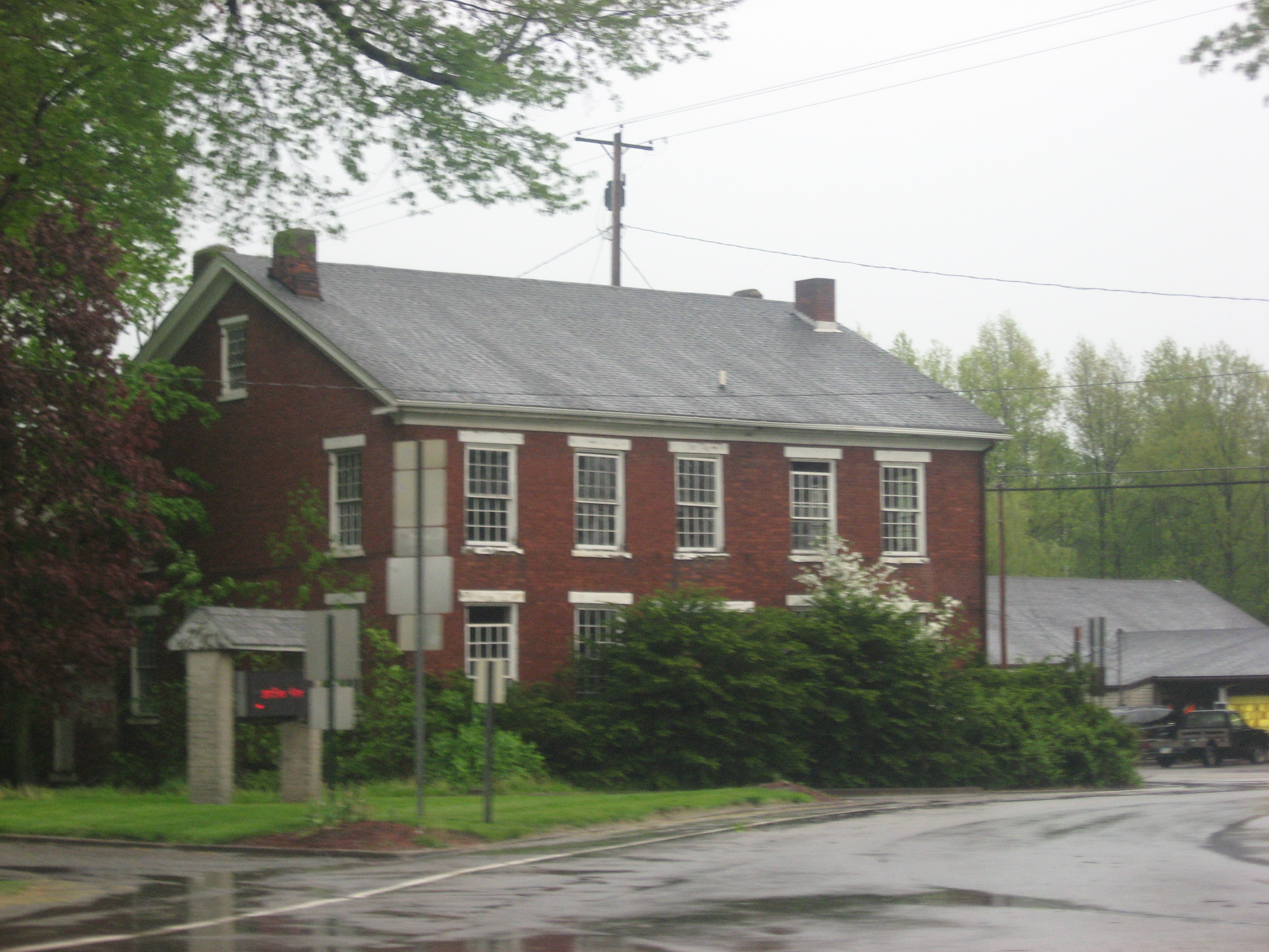 Front of the John Diver House, located at 9465 Akron-Canfield Road (U.S. Route 224/State Route 14/State Route 225) in Deerfield Township, Portage County, Ohio, United States. Built in 1830, it is listed on the National Register of Historic Places.